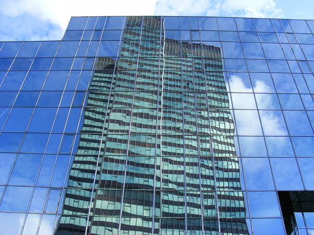 Euston Tower Reflected in the office block on the opposite side of Hampstead Road